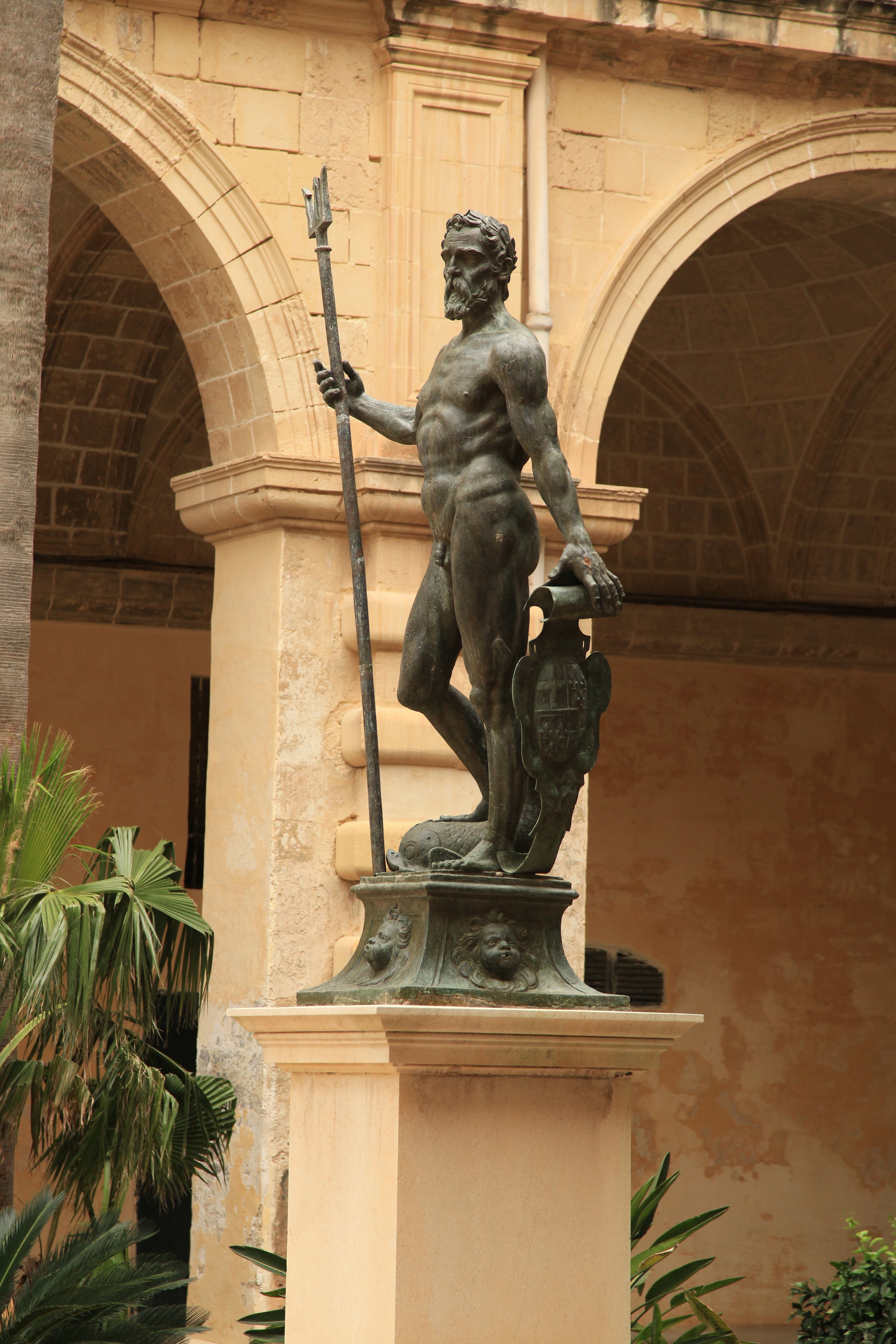 Grandmaster's Palace at Misraħ San Ġorġ, Triq ir-Repubblika in Valletta, Malta